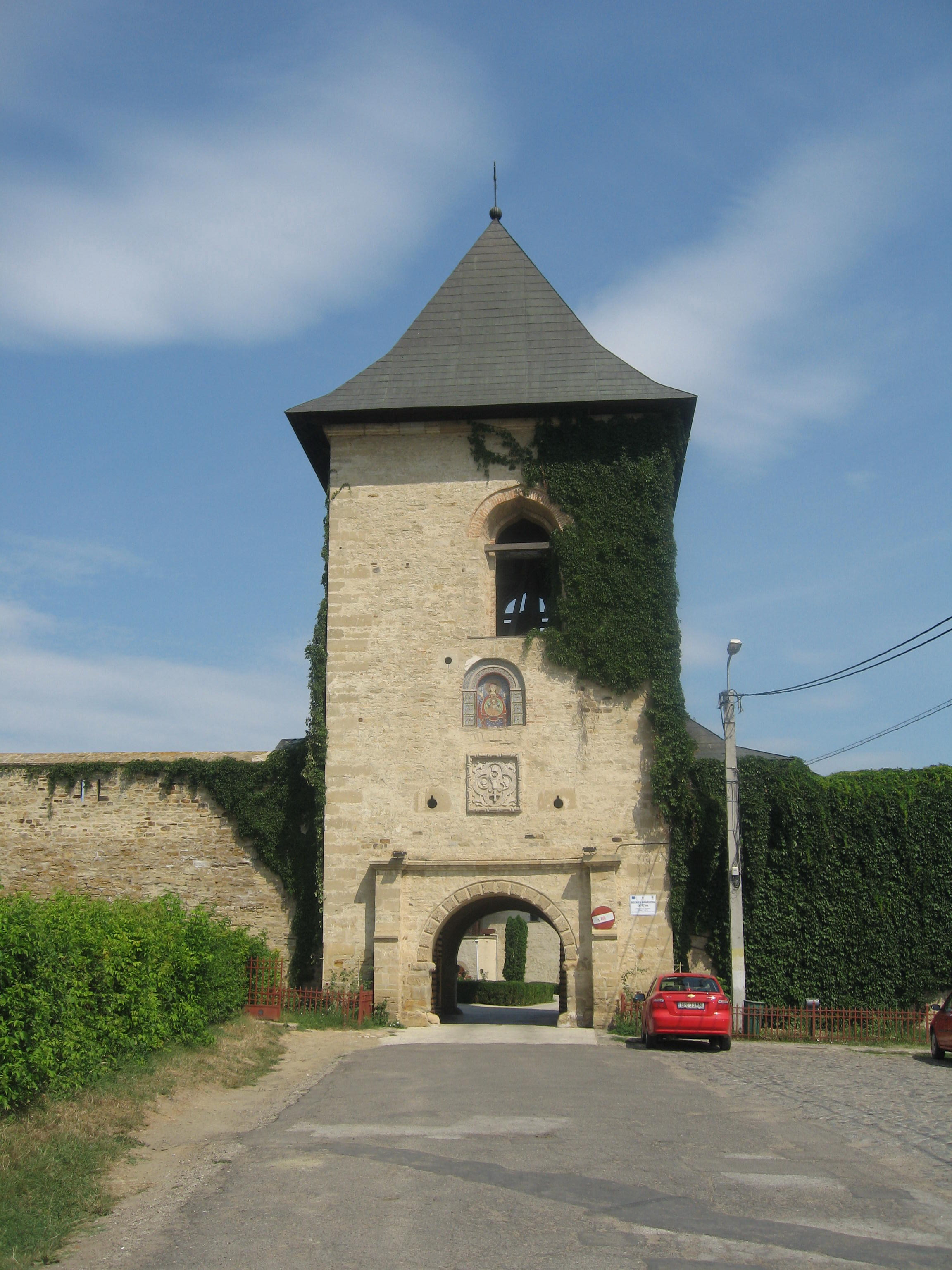 Mănăstirea Cetăţuia